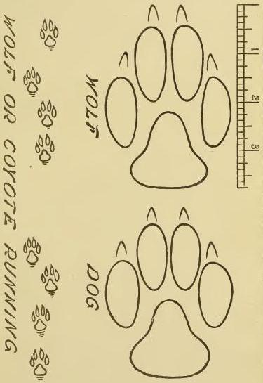 Wolf and dog tracks compared, as well as illustration of running wolf/coyote tracks.